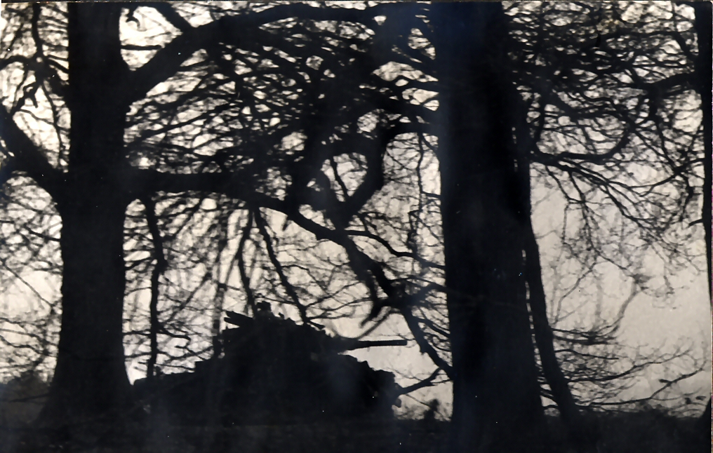 Photograph of a Saladin armoured car of the Cambridge University Officers' Training Corps in 1974, on exercise in East Anglia.